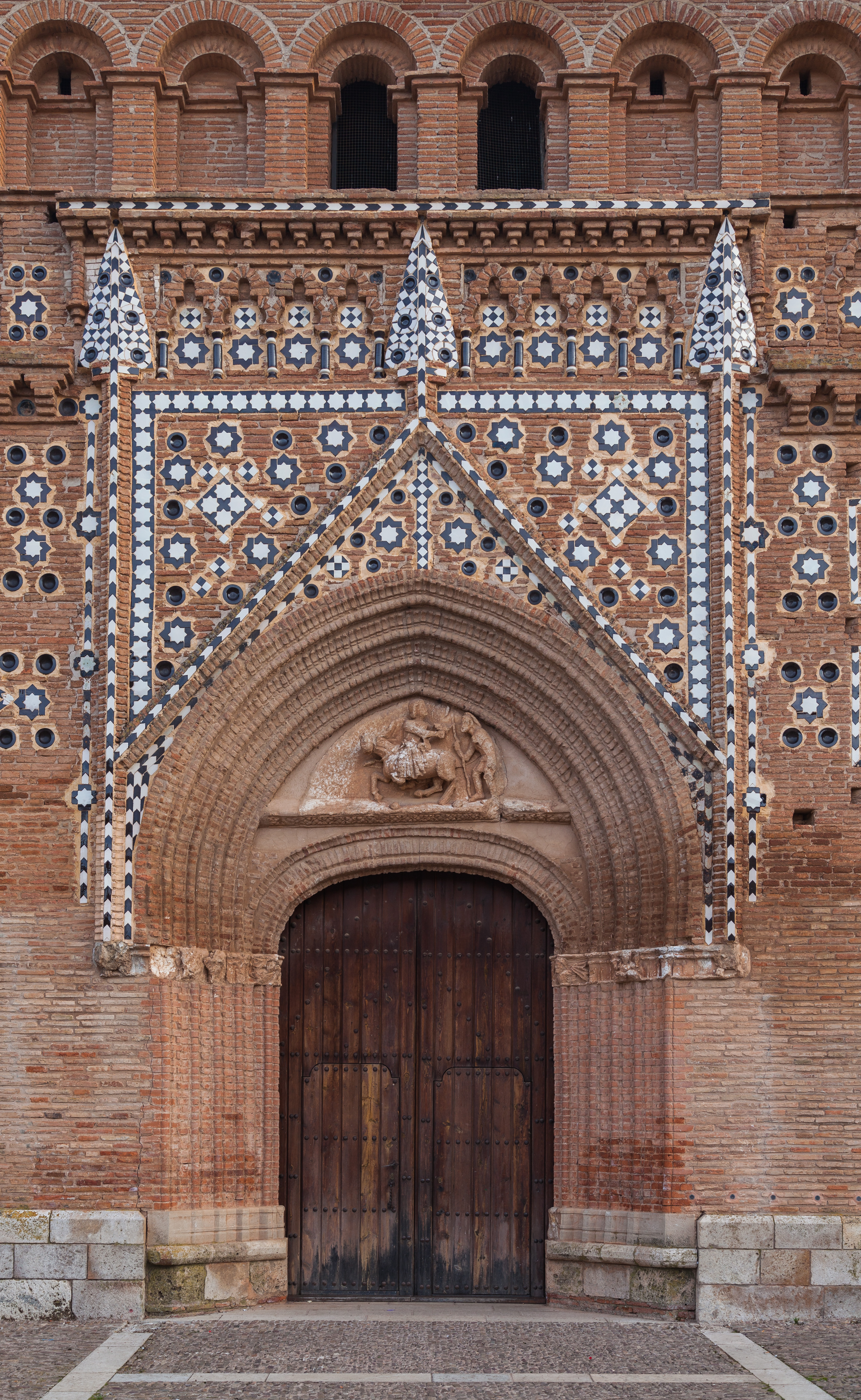 St Martin of Tours church, Morata de Jiloca, Zaragoza, Spain